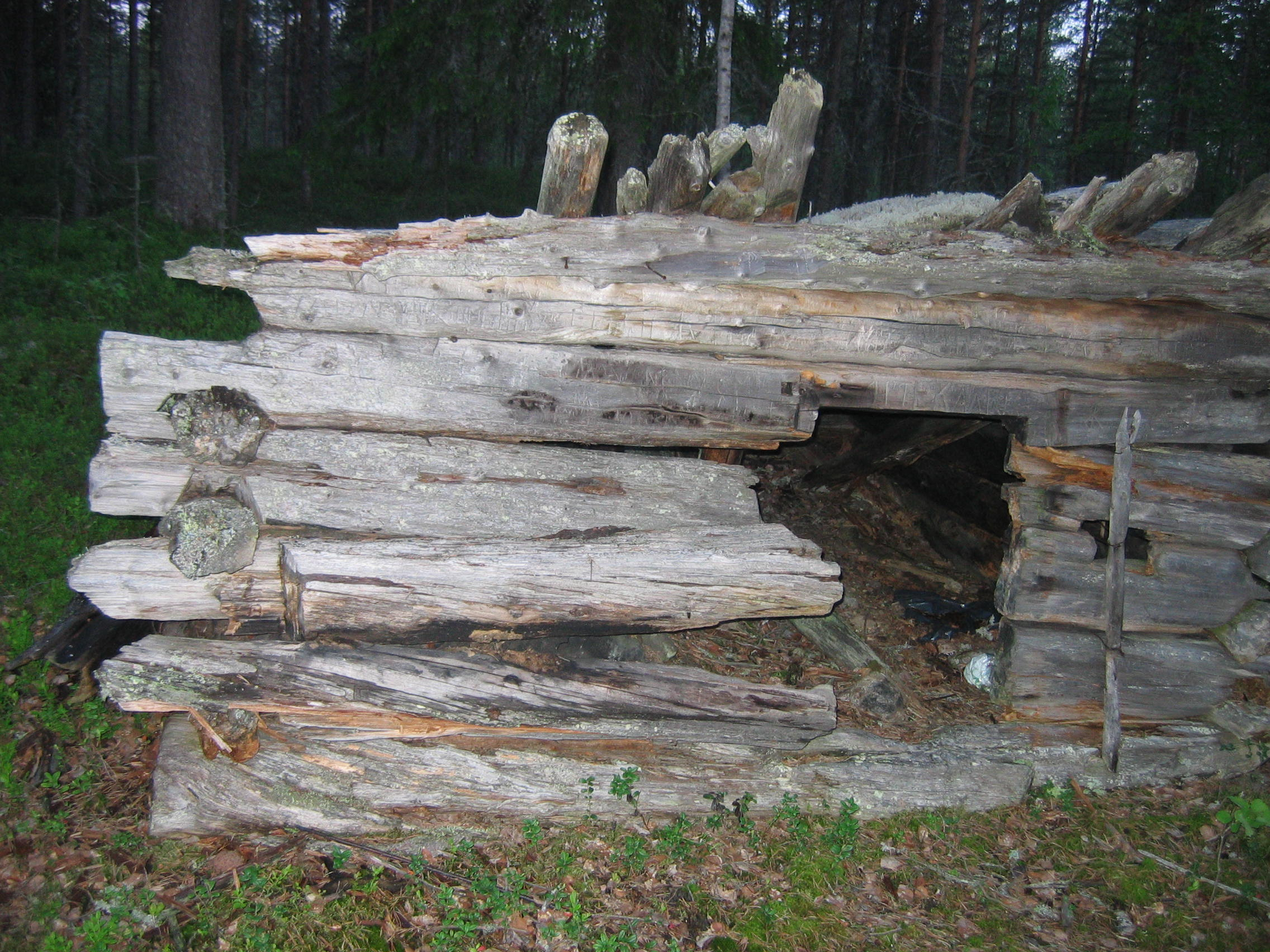 Ruins of a fishing hut in Vaala, Finland.